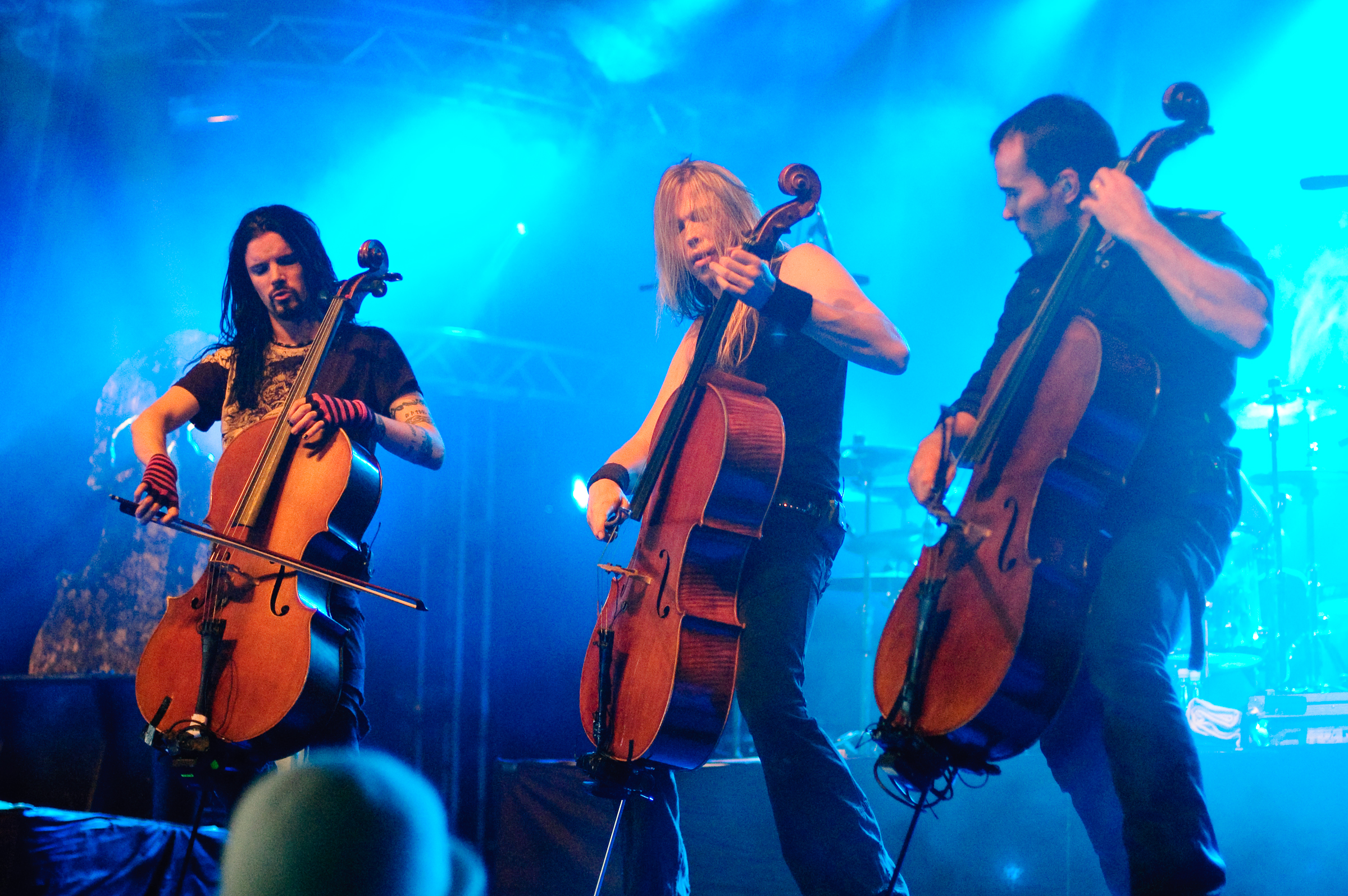 Finnish symphonic metal band Apocalyptica performing at the Ilosaarirock festival in Joensuu, Finland.